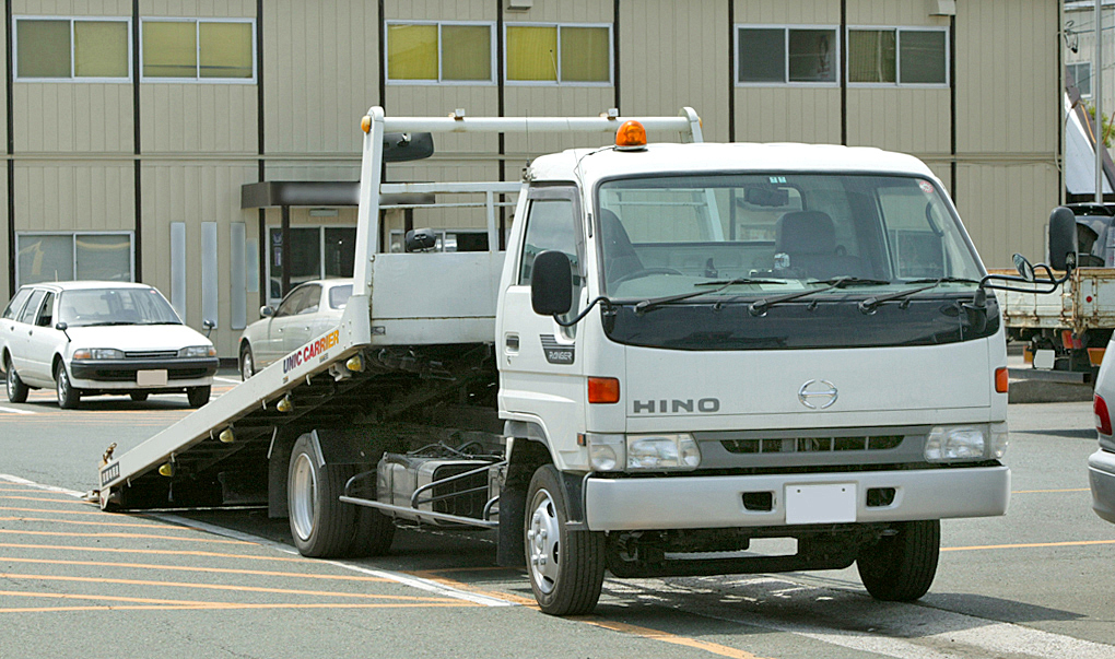 Hino Ranger2 Unic Carrier